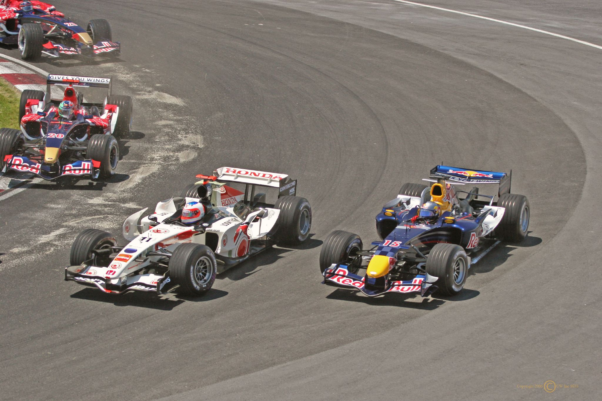 Barrichello overtakes Klien at the 2006 Canadian /grand Prix